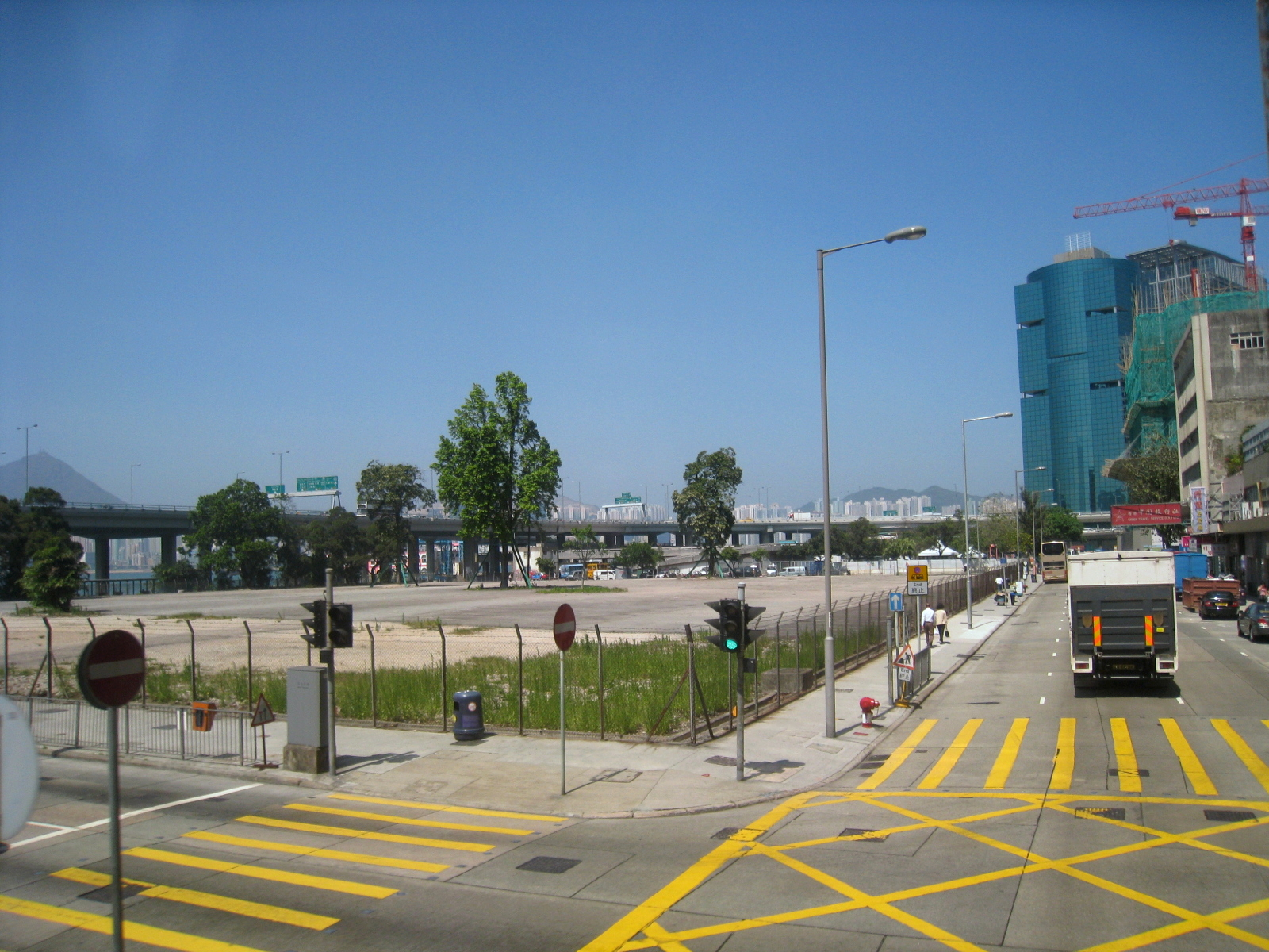 North Point Estate Site